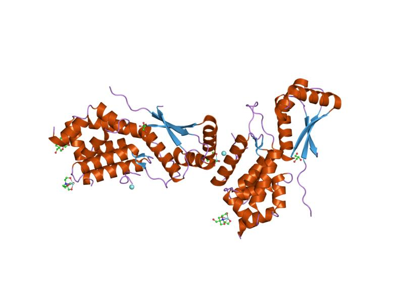 Cartoon representation of the molecular structure of protein registered with 1r6q code.